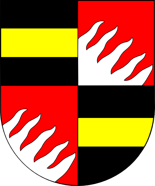 Coat of arms (shield only) of Olbram ze Škvorce, archbishop of Prague (1396 - 1402).